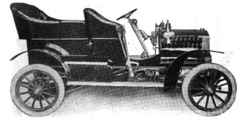 1906 Lambert automobile model 4